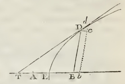 Image from method of fluxions in Catalan